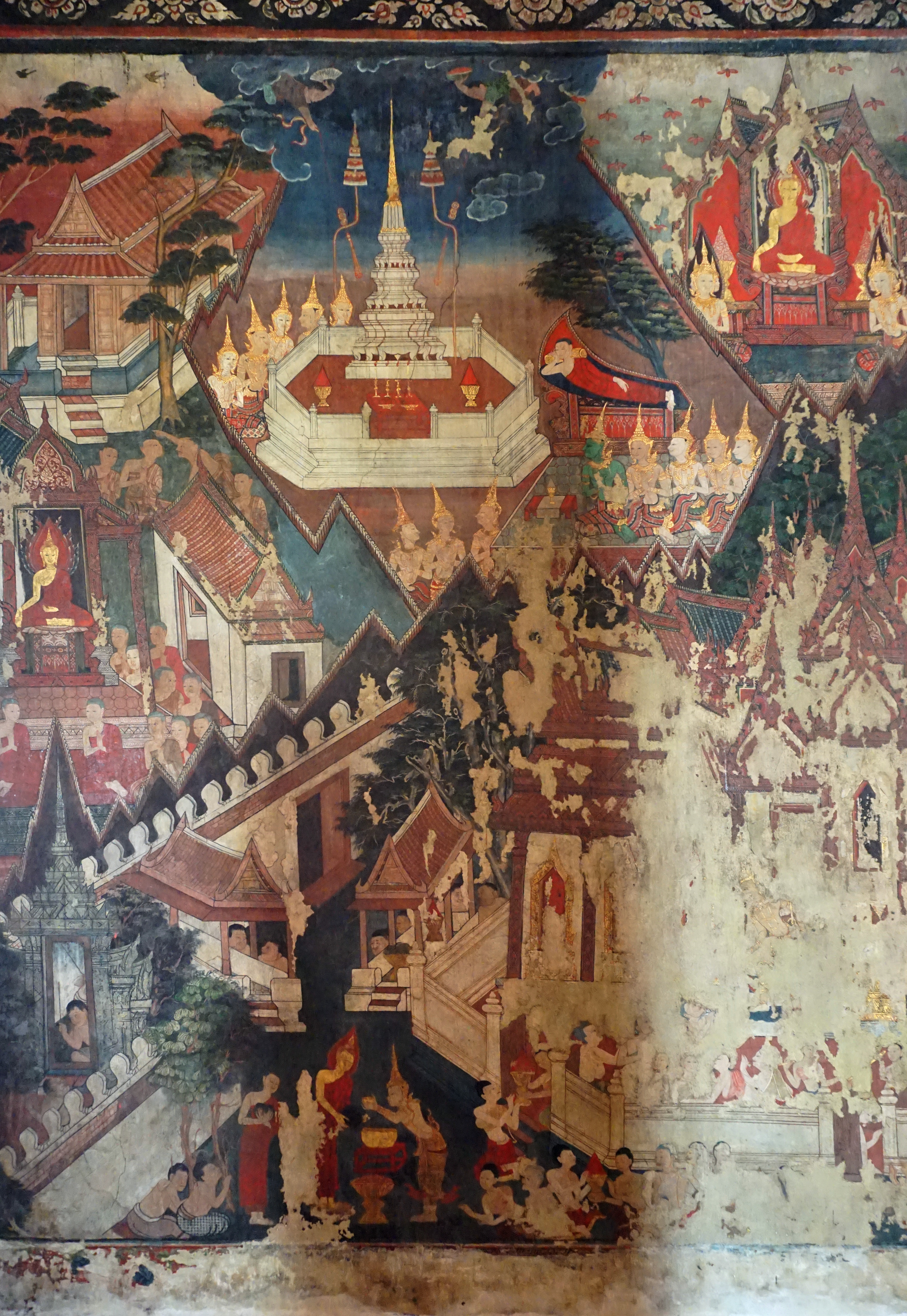 Photograph from the Buddhaisawan Temple, inside the National Museum, Bangkok